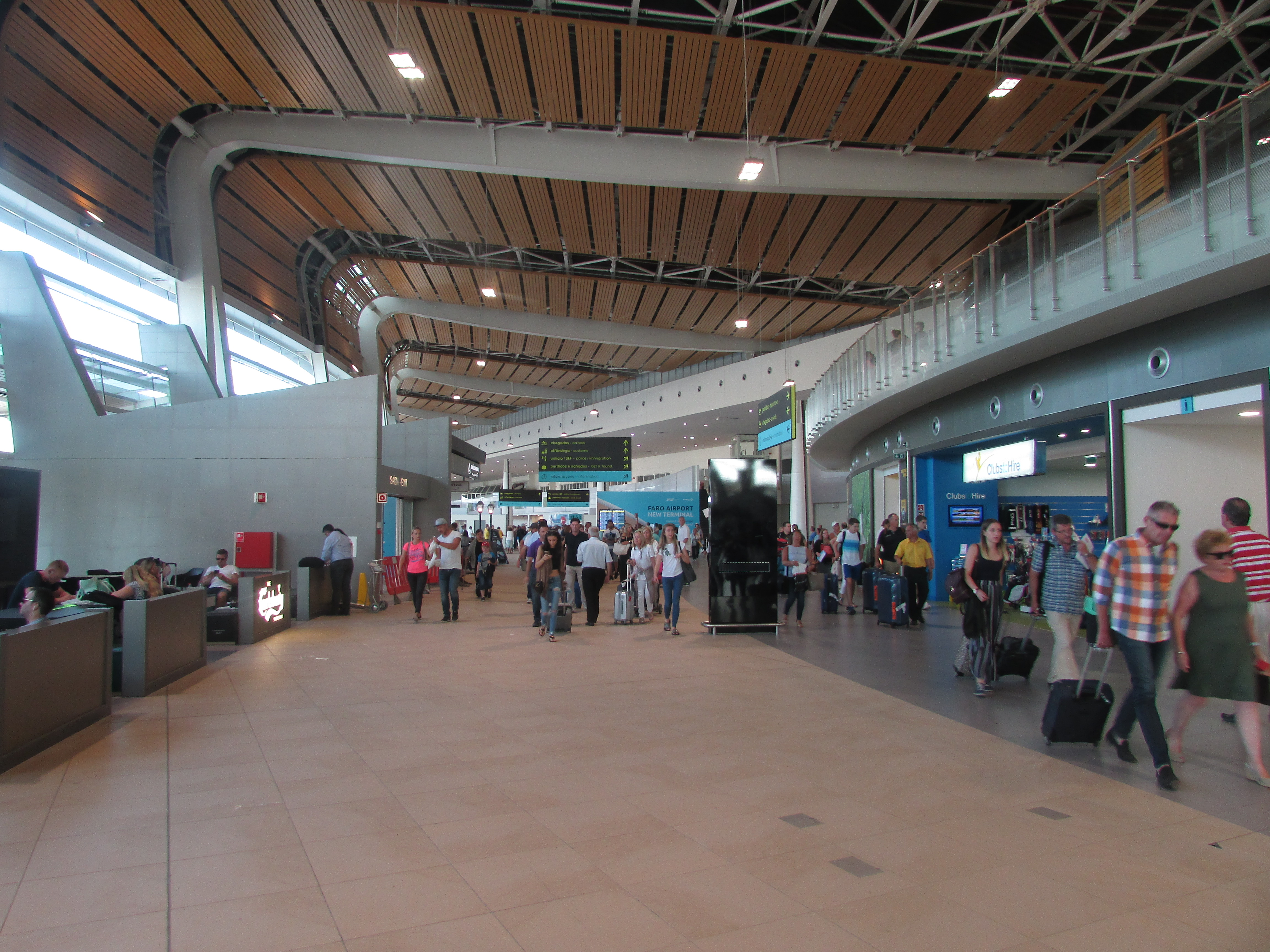 Inside the arrivals hall at Faro airport, Algarve, Portugal.